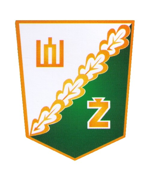 Vilniaus Zalgirio logo (1962-1988)